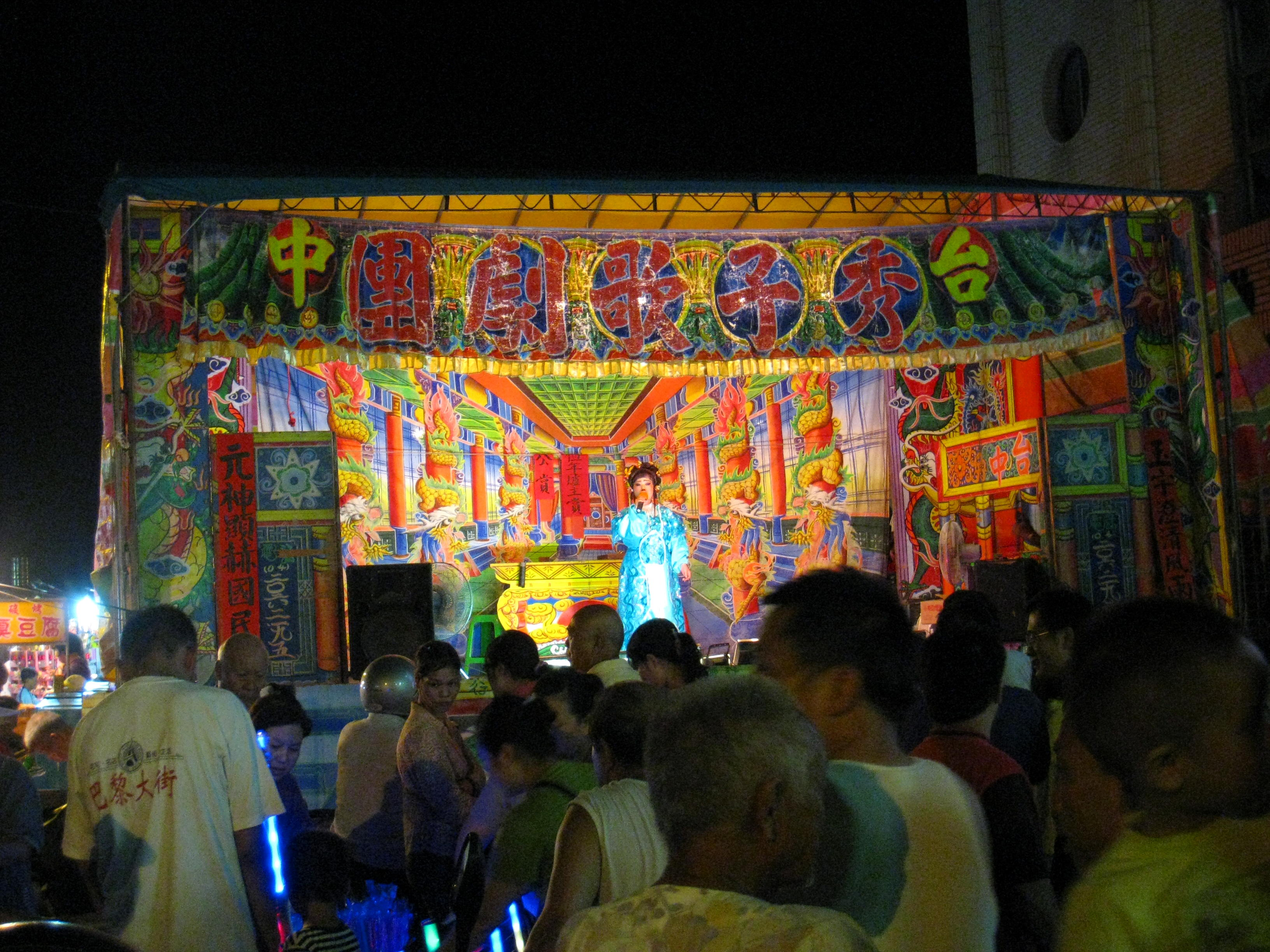 Ghost Festival Ritual（Taiwanese Ke-Tse opera）